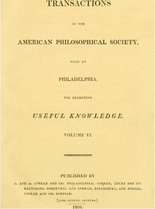 Transactions of the American Phiosophical Society. Volume VI Part I